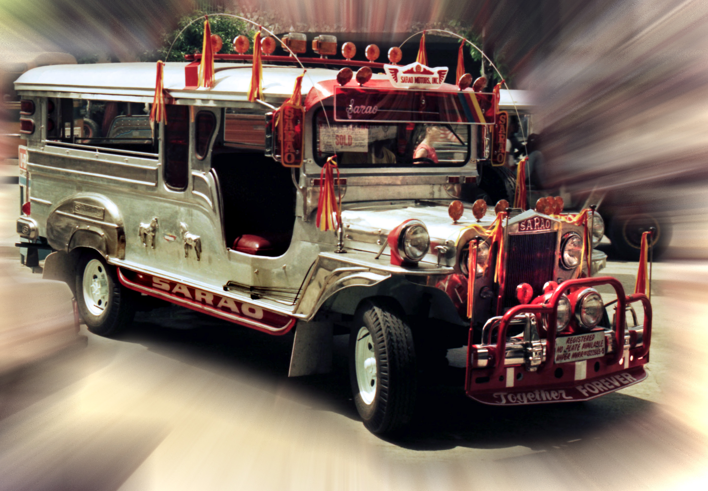 A Sarao Motors jeepney in 1988